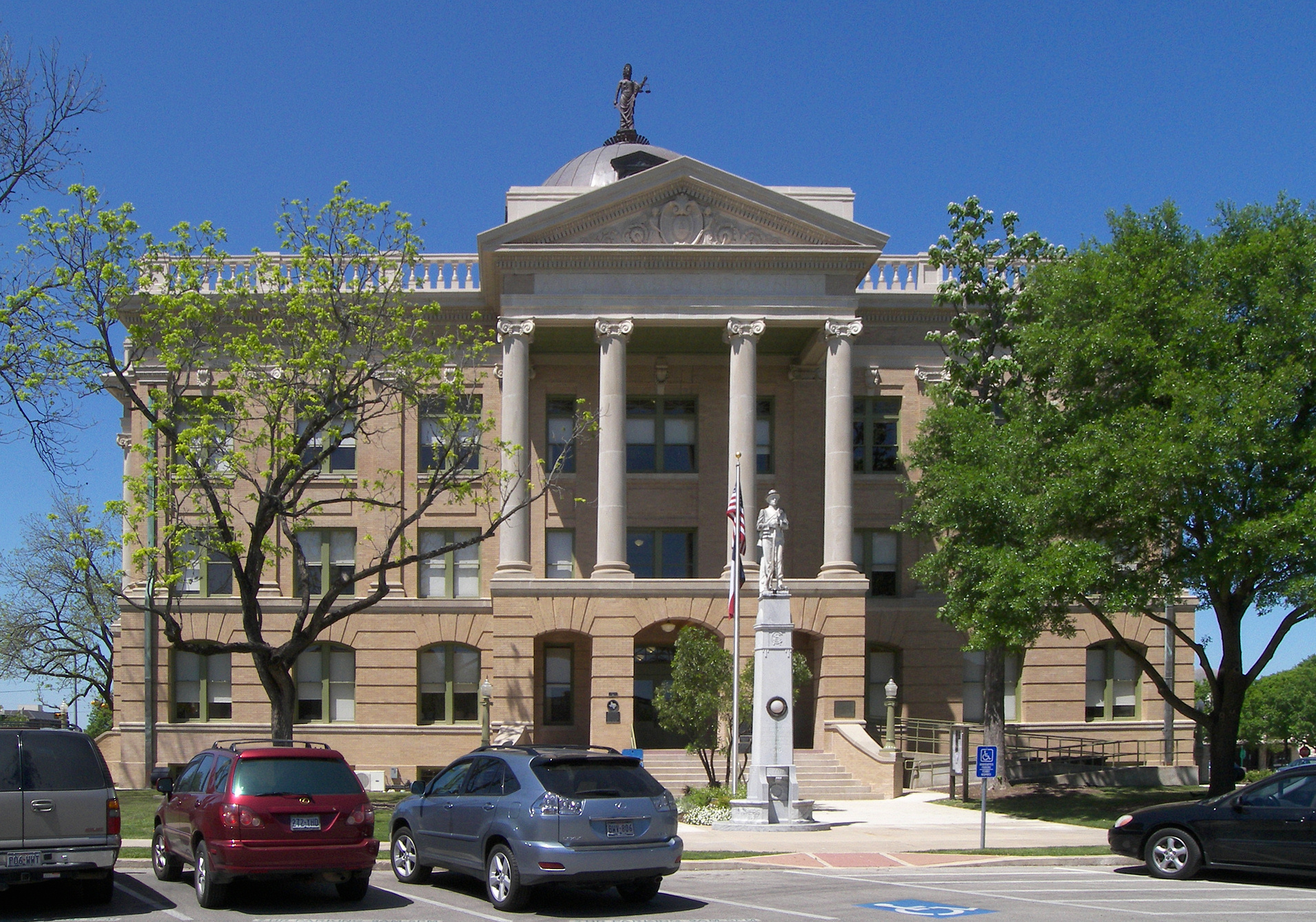 The Williamson County, Texas courthouse located in Georgetown, Texas, United States after its 2006-2007 renovation. Compare with renovation in progress image. The courthouse was built in 1910. The courthouse and surrounding historical district were listed on the National Register of Historic Places on July 16, 1977. The courthouse was designated a Recorded Texas Historic Landmark in 1988.